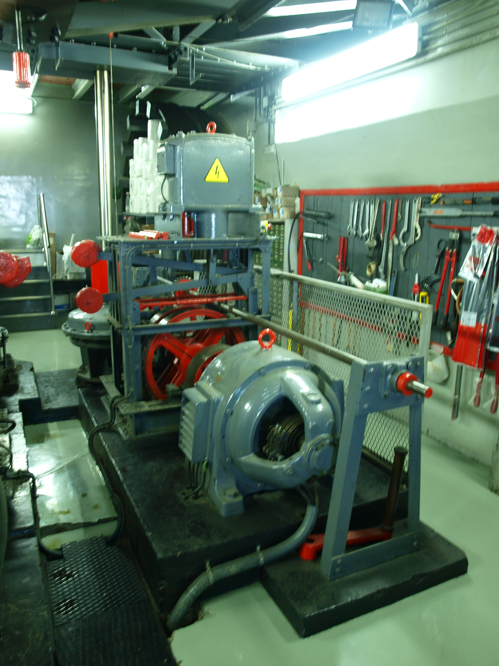 Barcelona - Port Vell Aerial tramway. Top Station (Miramar). Electric Reserve-Engine from 1931- operational.